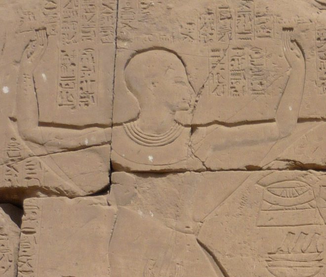 Amenhotep, high priest of Amun, and Ramses IX - Wall relief on second axis, Karnak temple of Amun-Ra, Egypt